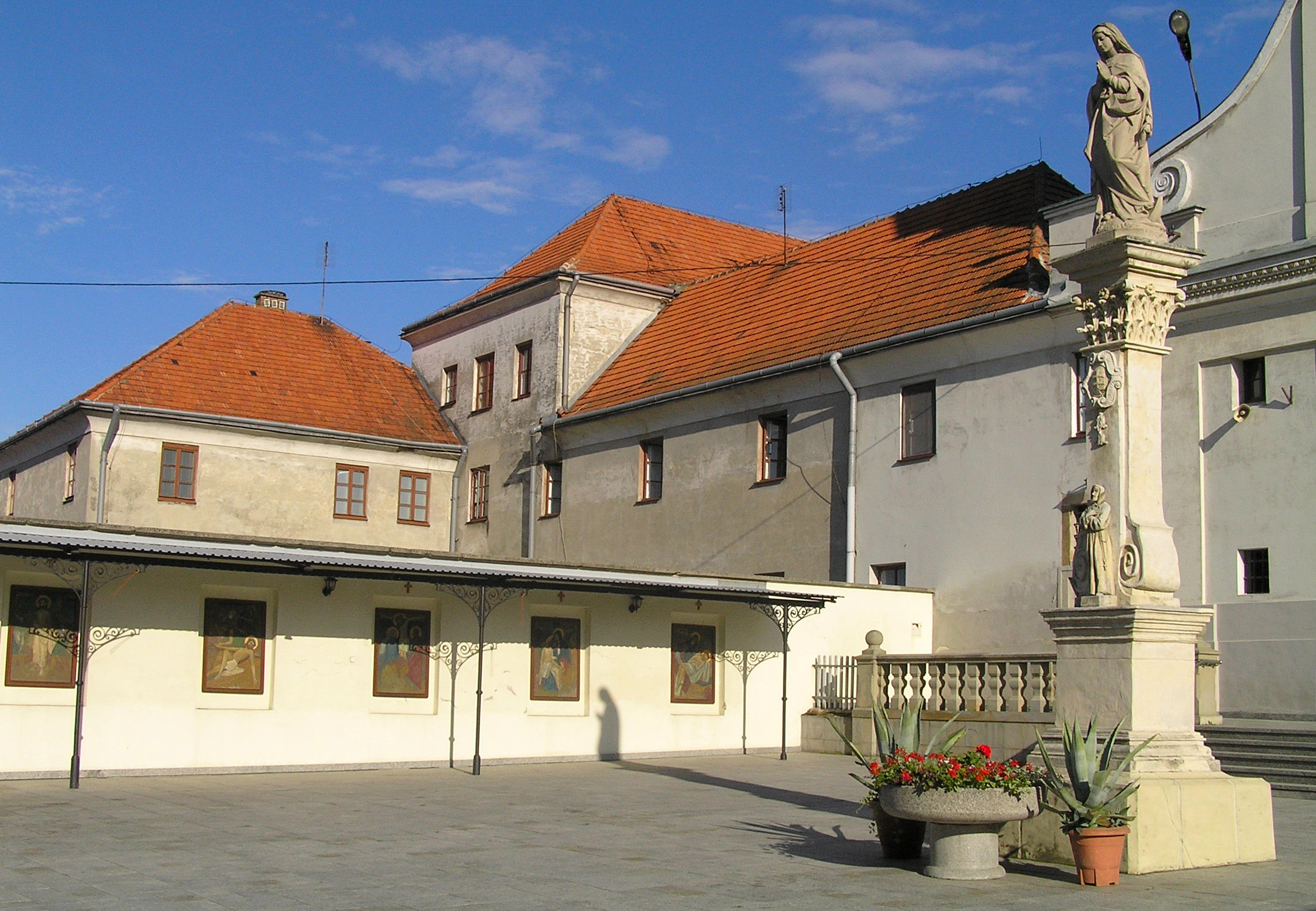 Place in front of st. Anthony's Church in Sędziszów Małopolski, Poland